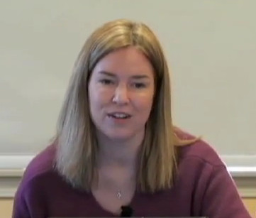 Virginia Heffernan — columnist, national correspondent for Yahoo News, and author of the soon-to-be-released Magic and Loss: The Pleasures of the Internet — discusses analog culture, digital culture and what's next.